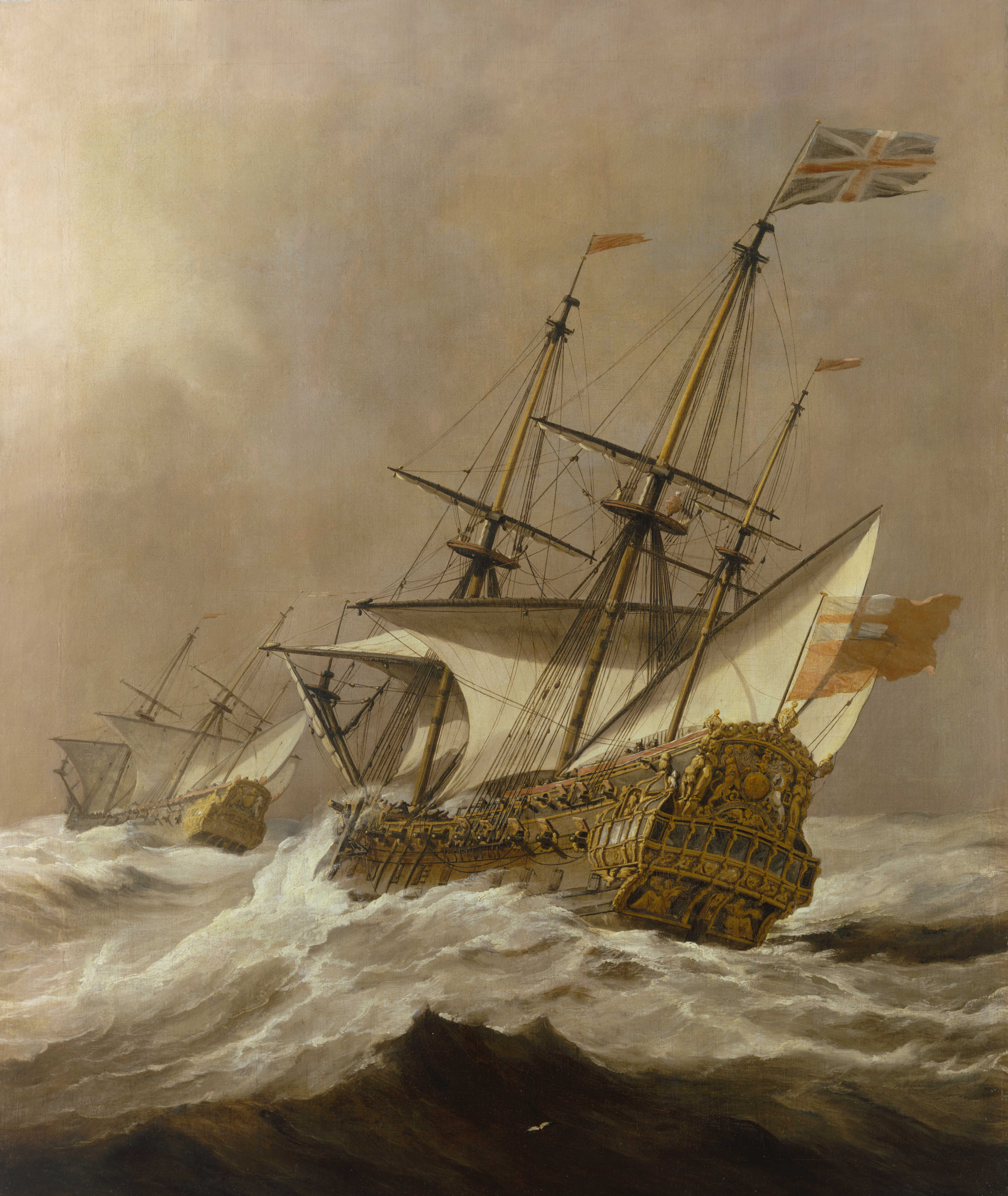 depicting the second HMS Resolution